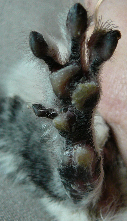 Chinchilla's paw, back leg